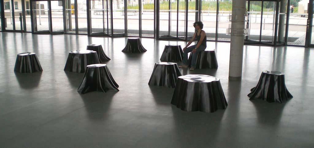 Eberhard Bosslet 2001 Biomorph sculptures "Stool Archipelago", "Island of Growth", "stump stools" are groups of sculptures made of fibreglass plastic on the basis of known organic forms. Dresden.